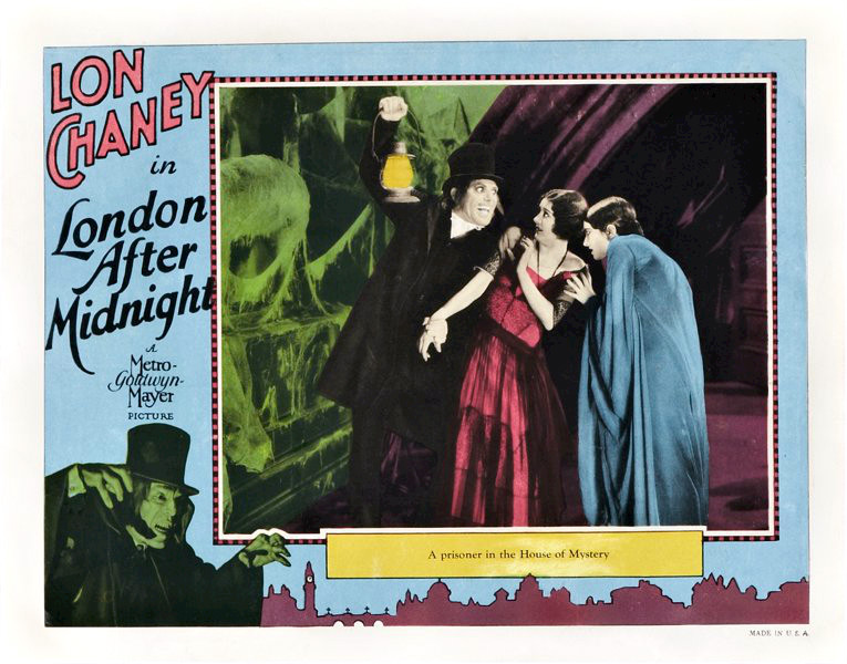 Lobby card for the American mystery film London After Midnight (1927). There are no copyright marks on the card. At lower right is Made in USA.